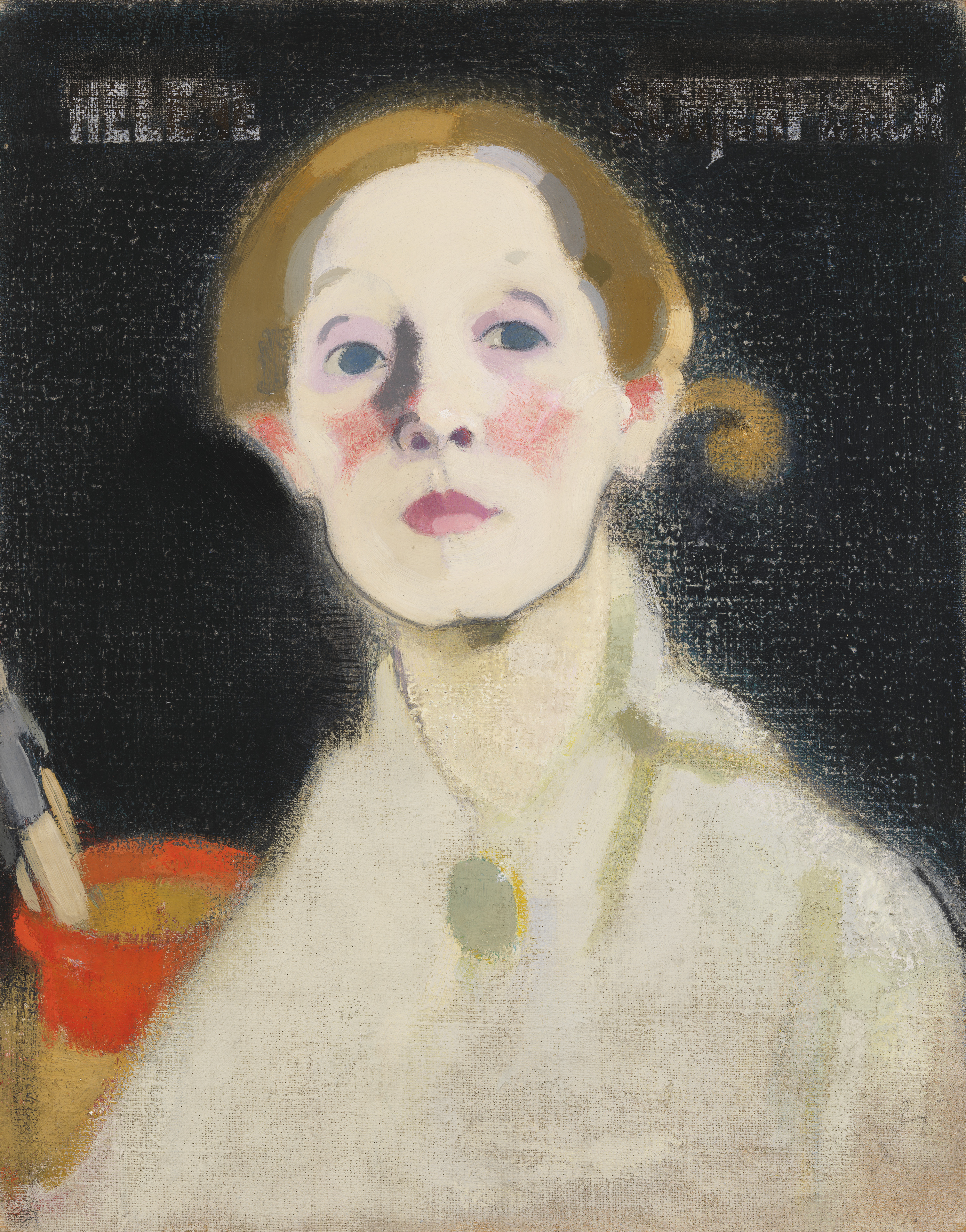 Self-Portrait, Black Background, 1915. Oil on canvas, Finnish National Gallery